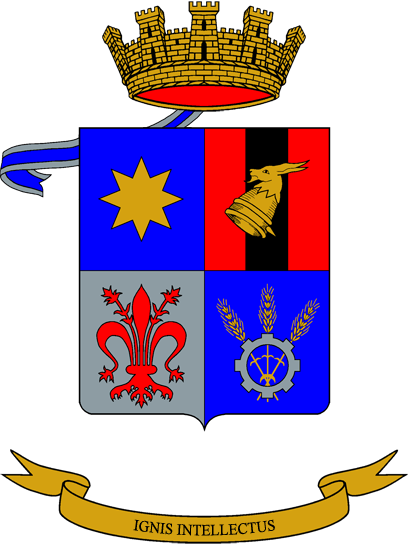 Coat of Arms of the 41° (former Artillery) Regiment “Cordenons”; Italian Army.